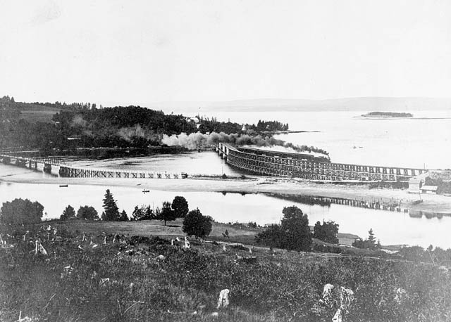 The 'Flying Bluenose' crossing the Dominion Atlantic Railway bridge over the Bear River, Annapolis Basin (N.S.)